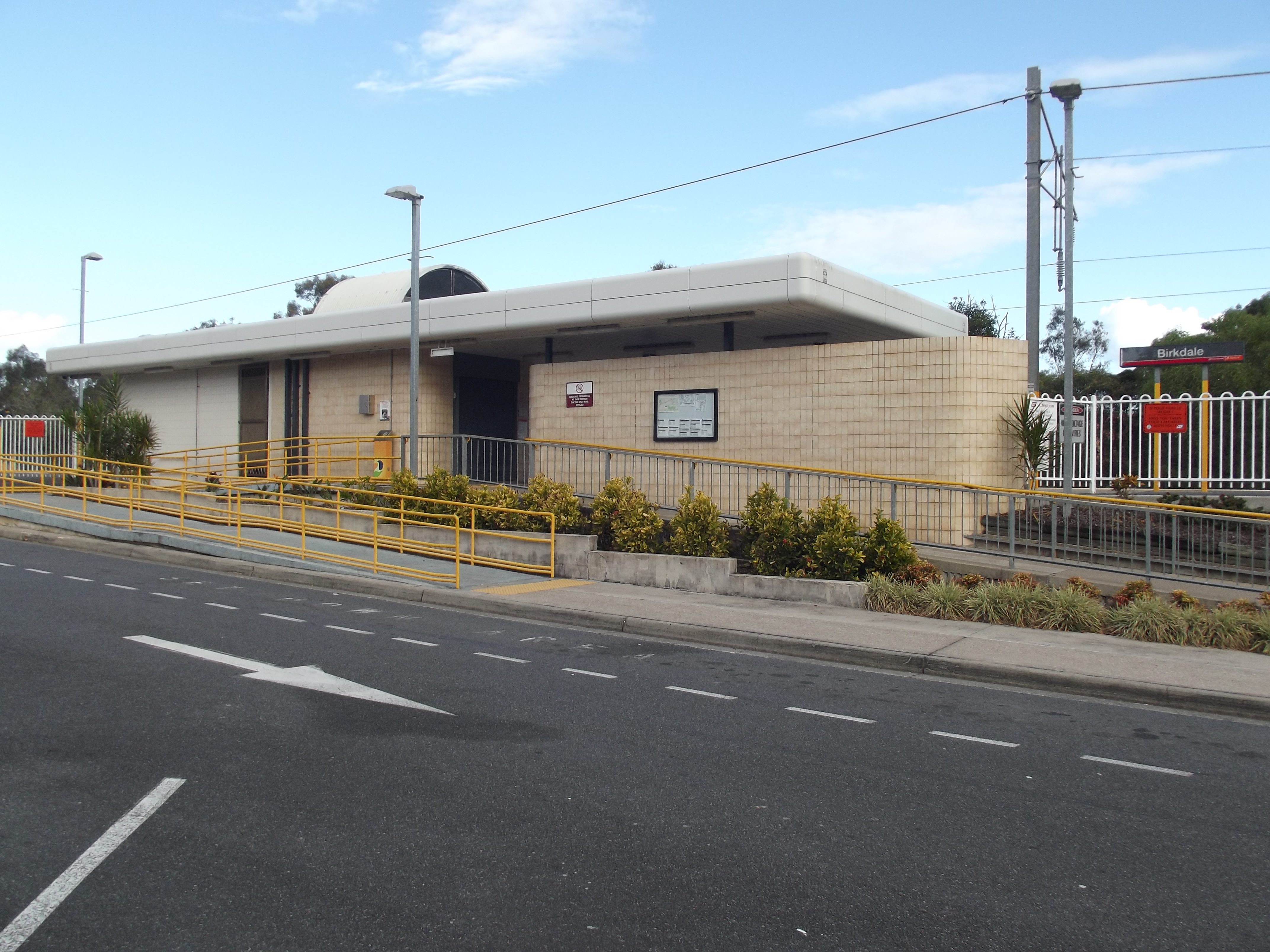 A photo of the Birkdale railway station, operated by TransLink, located in Brisbane, Australia.